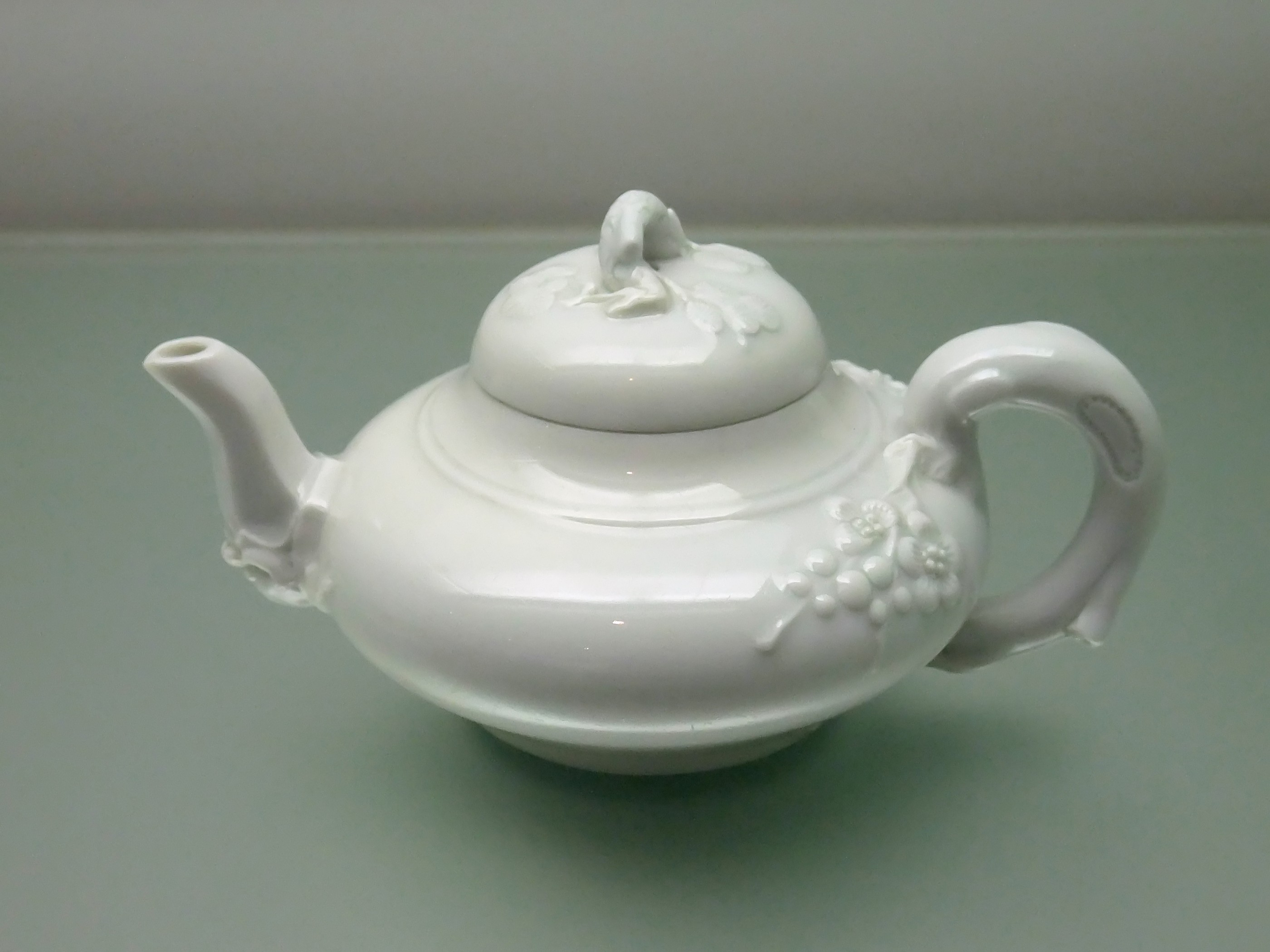 Teapot with plum blossom design in relief in white glaza, Dehua ware. An exhibit on display at the Hong Kong Museum of Art.